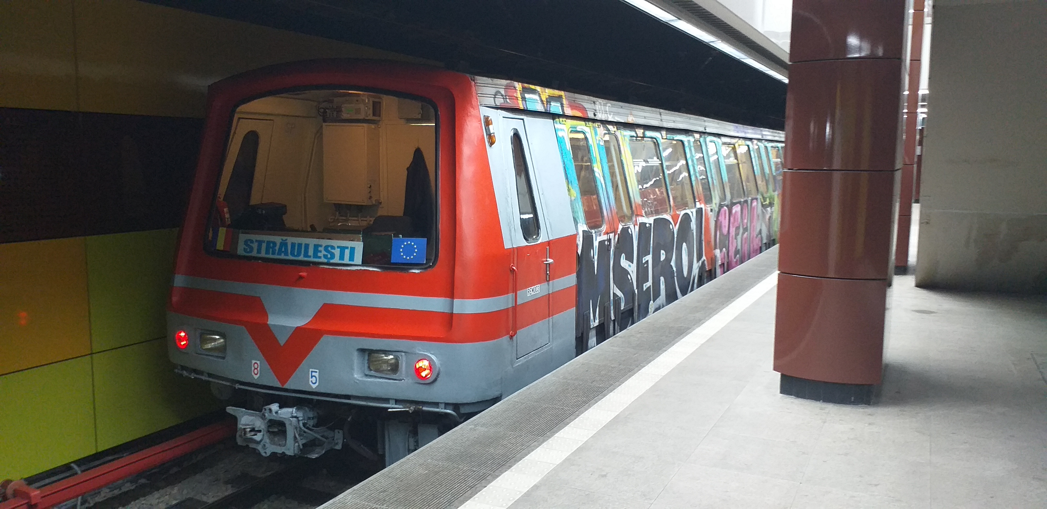 Electric Metro Unit 003 (Astra IVA) at the Străulești metro station. This was the first production series unit, made in 1978.